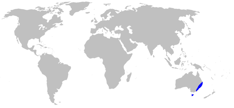 Plant family Blandfordiaceae distribution map